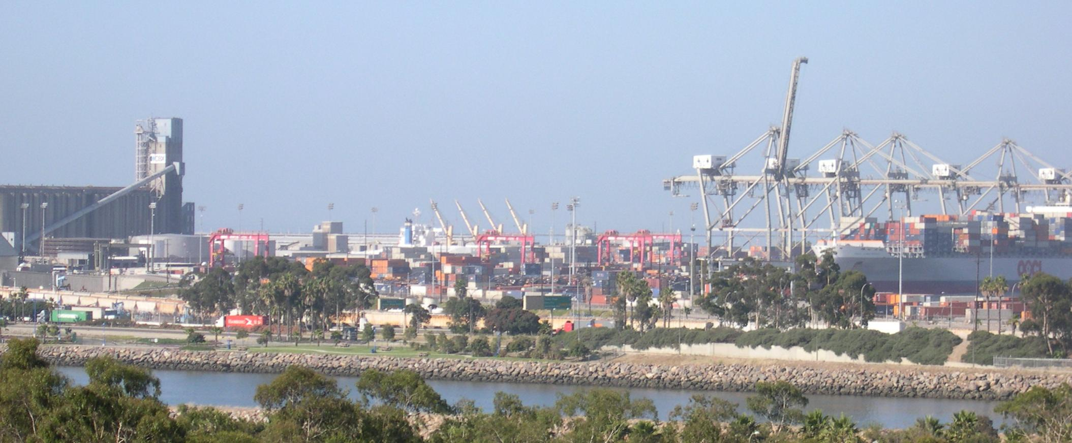 Part of the Port of Long Beach, California Photo by User:Sfoskett